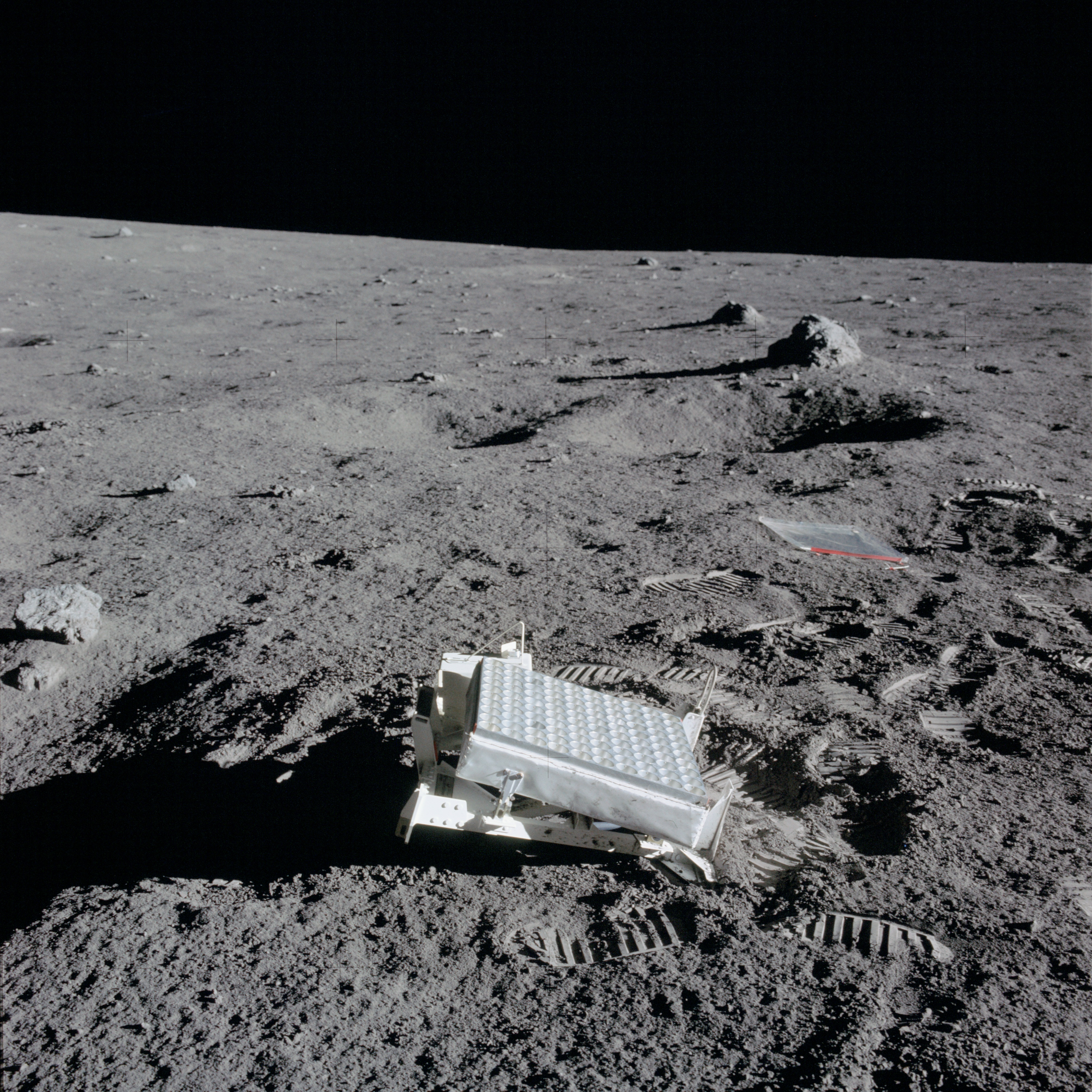 Apollo 14's LRRR. A close-up view of the laser ranging retro reflector (LR3) which the Apollo 14 astronauts deployed on the moon during their lunar surface extravehicular activity (EVA). While astronauts Alan B. Shepard Jr., commander, and Edgar D. Mitchell, lunar module pilot, descended in the Lunar Module (LM) to explore the moon, astronaut Stuart A. Roosa, command module pilot, remained with the Command and Service Modules (CSM) in lunar orbit.